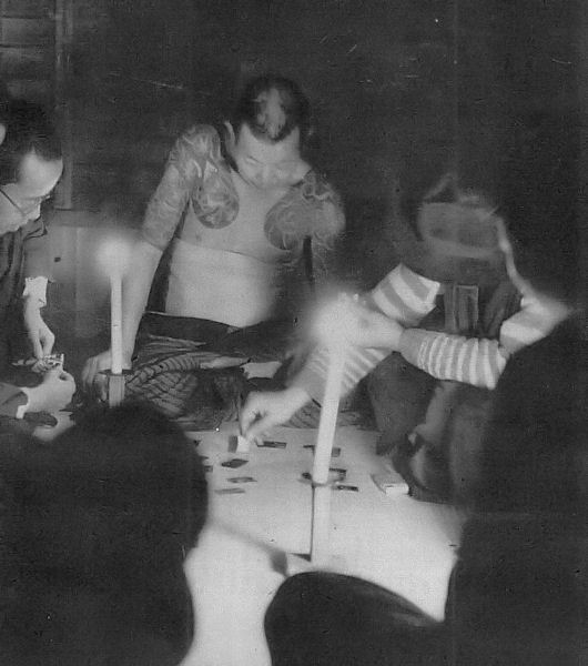 Toba (Japanese illegal casino)